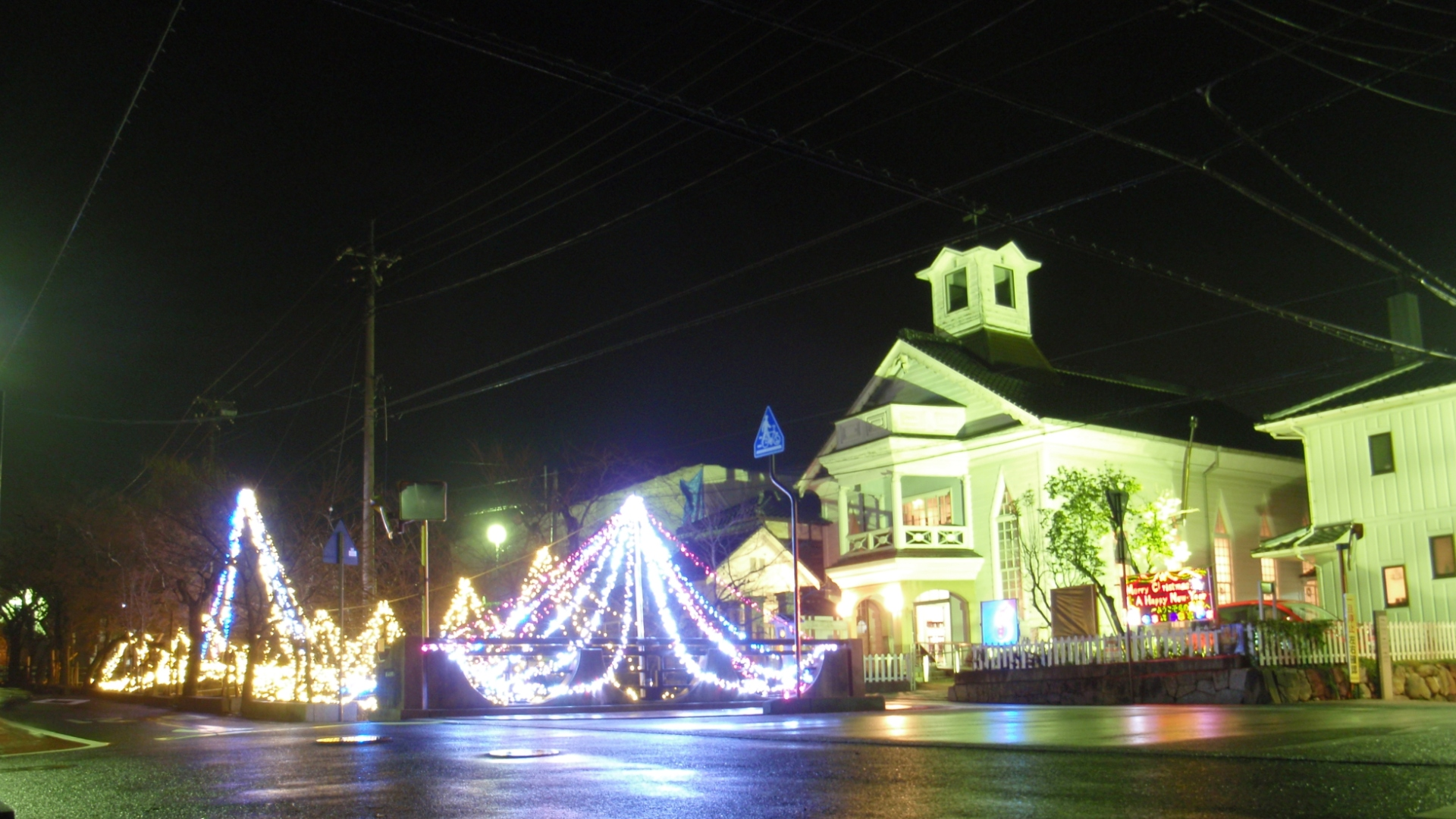 Takahashi Christ Church Takahashi, Okayama. In Christmas illumination.